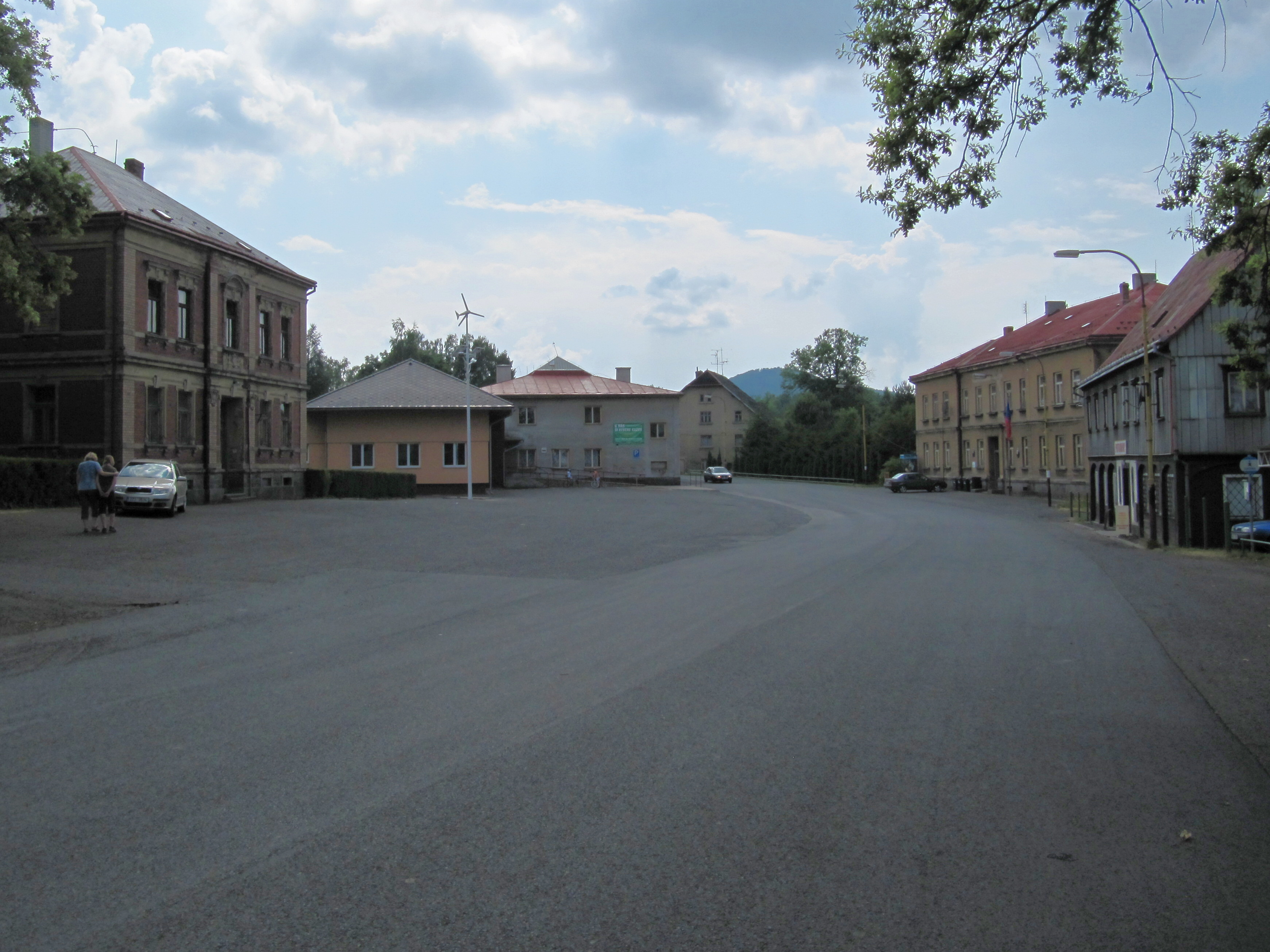 Staré Křečany in Děčín District, Czech Republic. Main street.